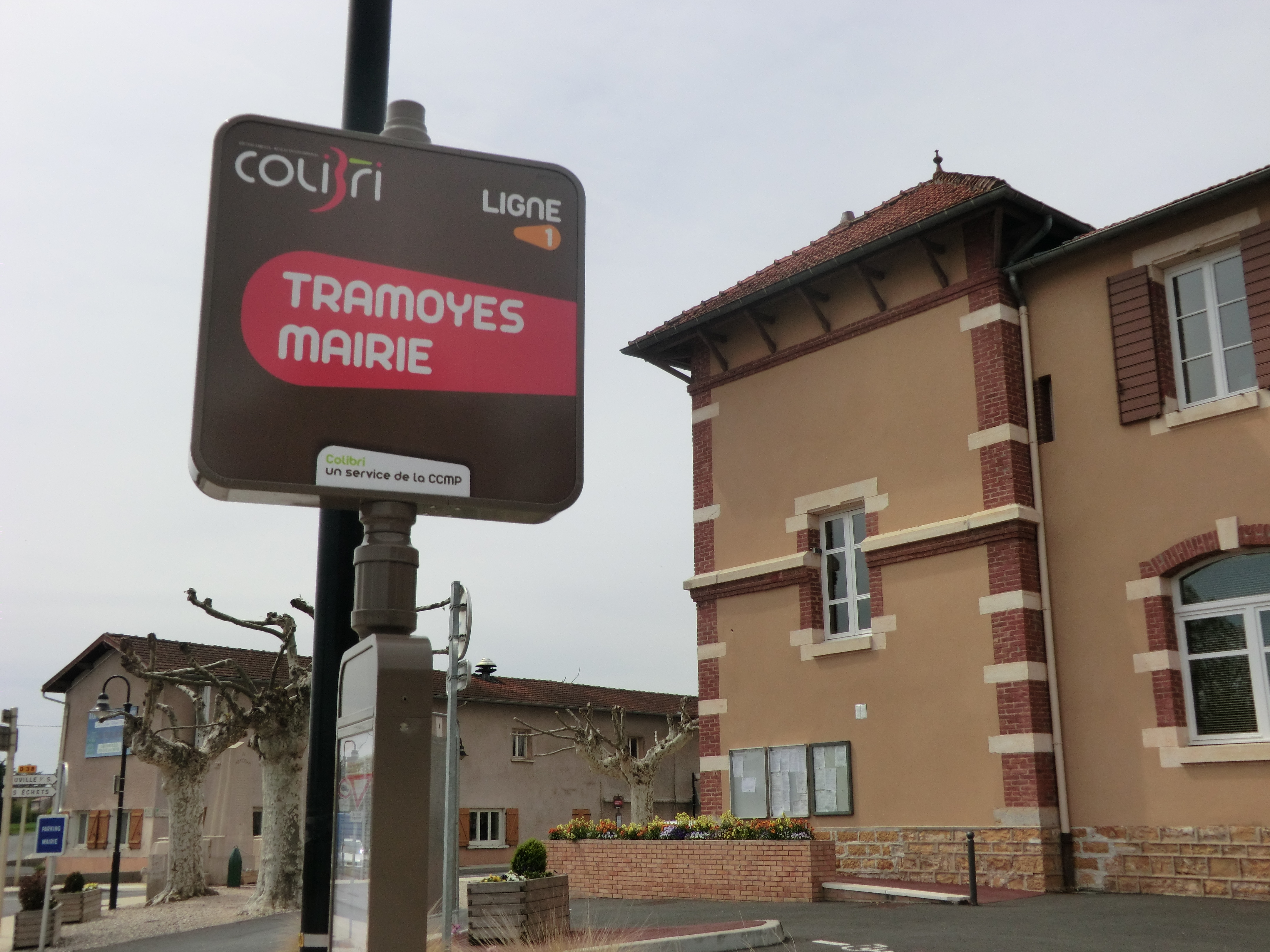 Tramoyes mairie (Colibri bus stop).